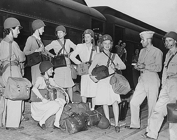 Title: War correspondents and personnel of the Office of Strategic Services, leaving from the Railhead, Camp Patrick Henry, Virginia, enroute overseas, 07/09/1944 Description: War correspondents and personnel of the Office of Strategic Services, leaving from the Railhead, Camp Patrick Henry, Virginia, enroute overseas. Left to right: John Chabat Smith, correspondent for tthe New York Herald Tribune, New York, New York; 1st Lieutenant Donald E. Higgens, Brooklyn, New York, Public Relations Officer of Camp Patrick Henry; Marcella Bailey, Madison, Wisconsin;Virginia Rathbun, Providence, Rhode Island; Barbara V. Laird, Chicago, Illinois; Helen Angell, Portland, Oregon; Cecilia (Jackie) B. Martin, correspondent and photographer for the Ladies" Home Jouranl; R. Annuniata Axlund, (seated) Casper, Wyoming. Official Photograph, United States Army Signal Corps, Hampton Roads Por of Embarkation, Newport News, Virginia. Part of Series: Photographic Albums of Prints of Hampton Roads Port of Embarkation, 09/1942 - 12/1945 Location: Still Picture Records LICON, Special Media Archives Services Division (NWCS-S), National Archives at College Park, 8601 Adelphi Road, College Park, MD 20740-6001 PHONE: 301-837-3530, FAX: 301-837-3621, Production Date: 07/09/1944 Access Restrictions: Unrestricted Use Restrictions: Unrestricted Variant Control Number(s): NAIL Control Number: NWDNS-336-H-17(E8671) ARC Identifier: 542171 Local Identifier: NWDNS-336-H-17(E8671)